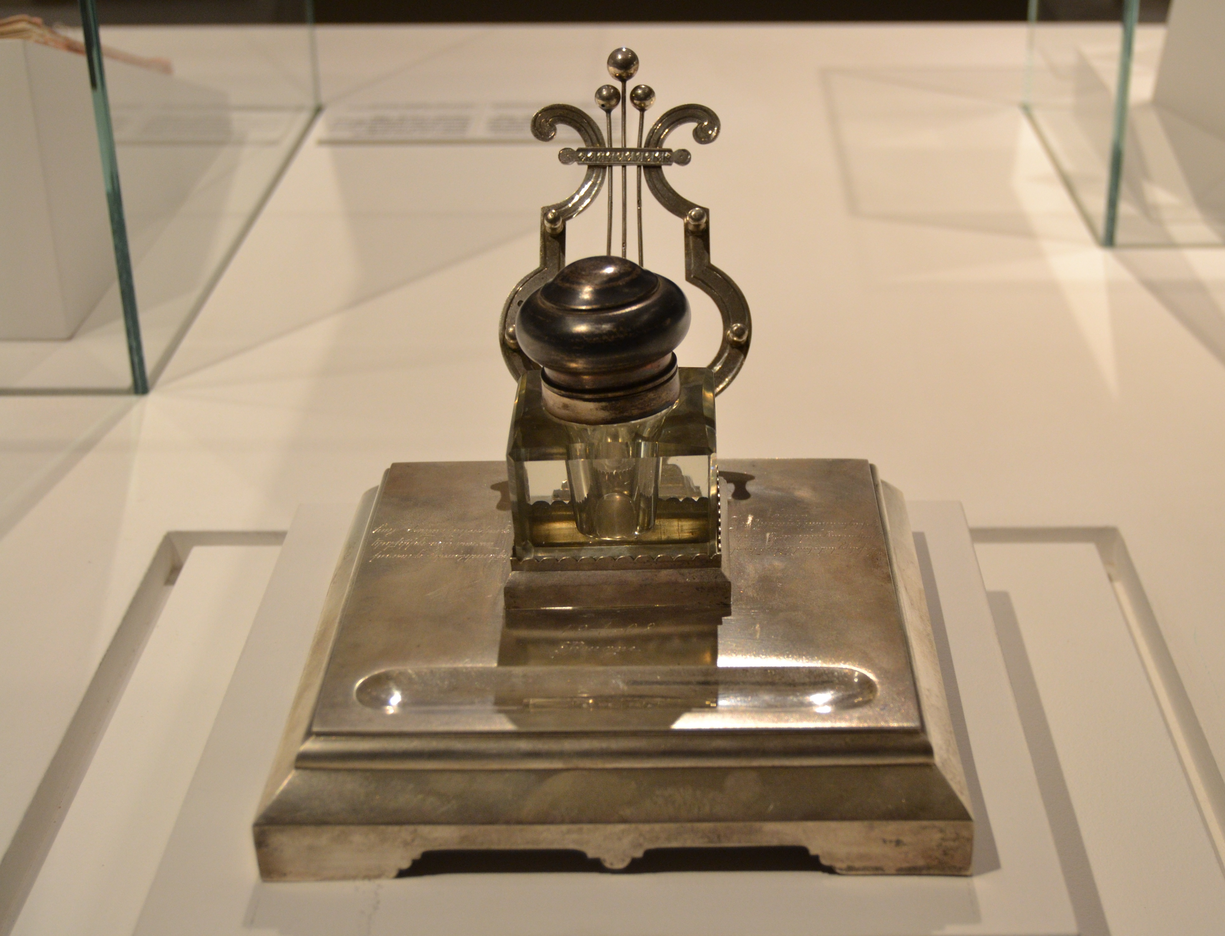 Donated by His Holiness Karekin II, Catholicos of All Armenians to Komitas Museum-Institute